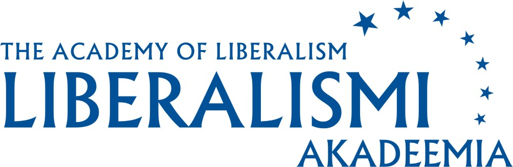 The term “liberalism” is derived from the Latin word “libertas” meaning freedom. Liberal ideology has remained the same throughout centuries and shows no signs of change in terms of its essence, importance and meaning. It is hard to determine a precise time of emergence of this ideology – it has rather existed all the time as there have always been reasonable, intelligent and rational persons – but it is clear that it was already in existence at the end of the 18th century.